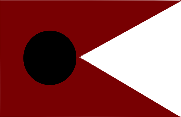 Flag of the Beylik of Aydın according to the limited sources.